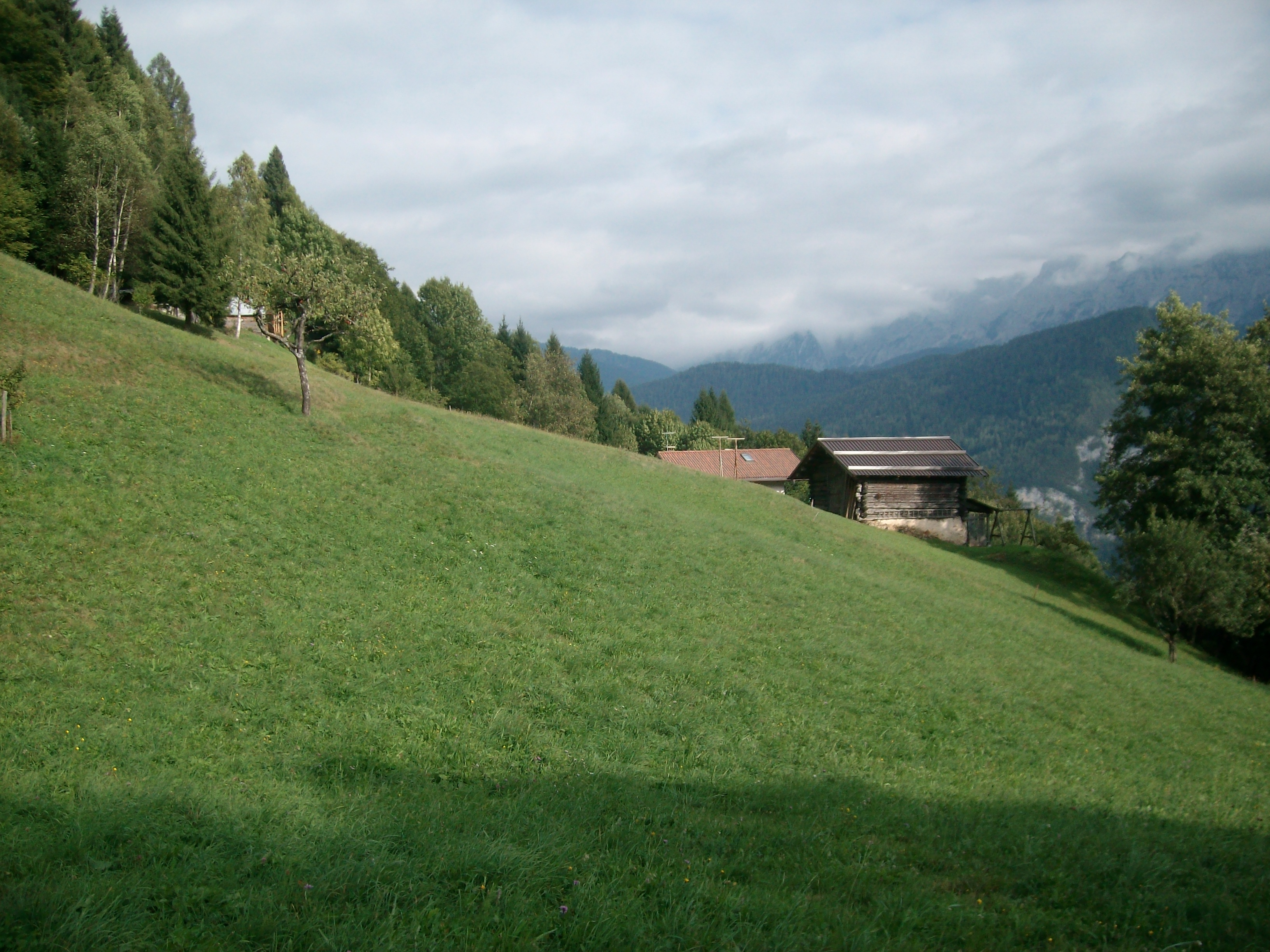 Solàn meadows, above Imèr